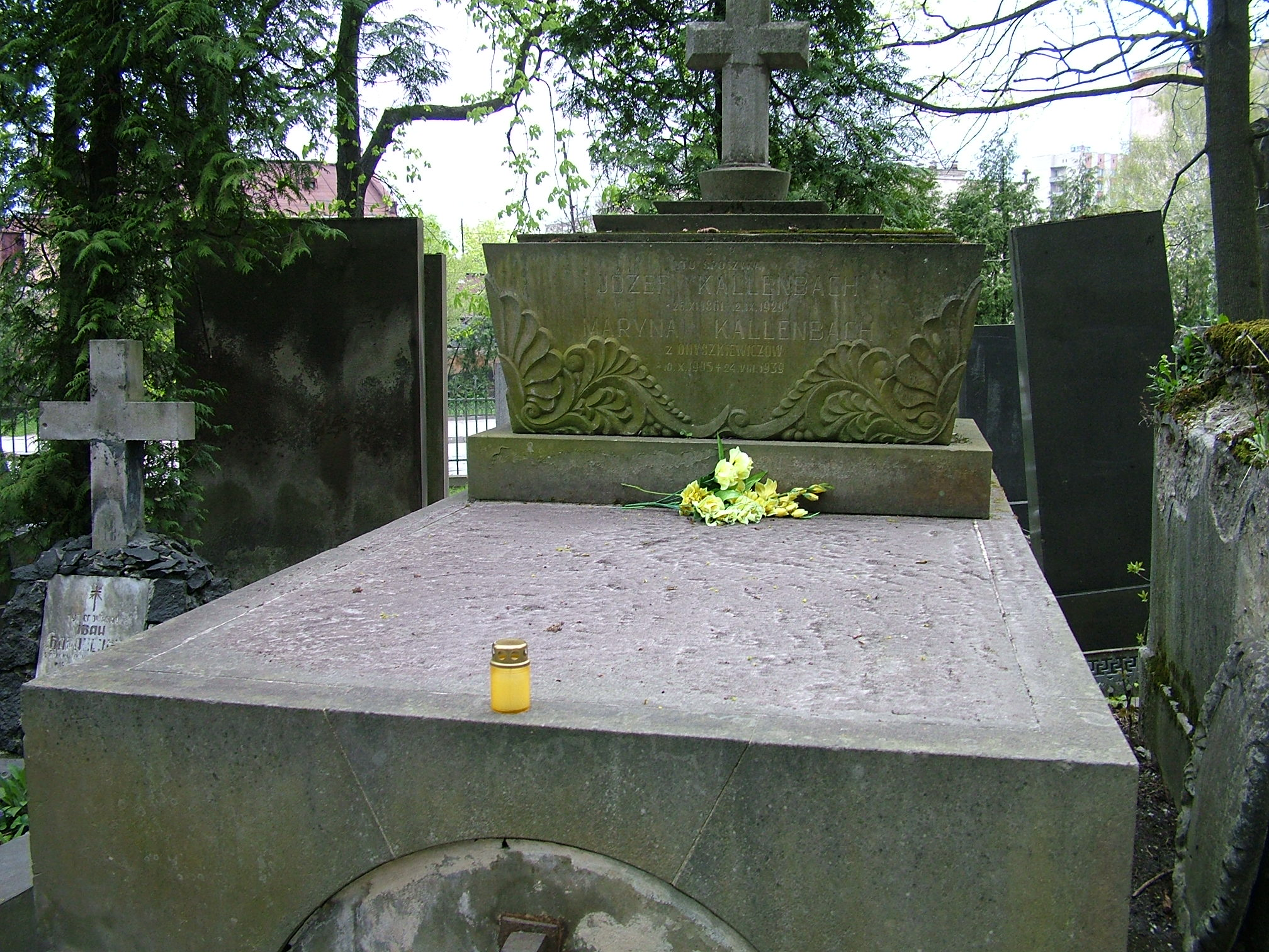 Lwów, Grave of Jozef Kallenbach